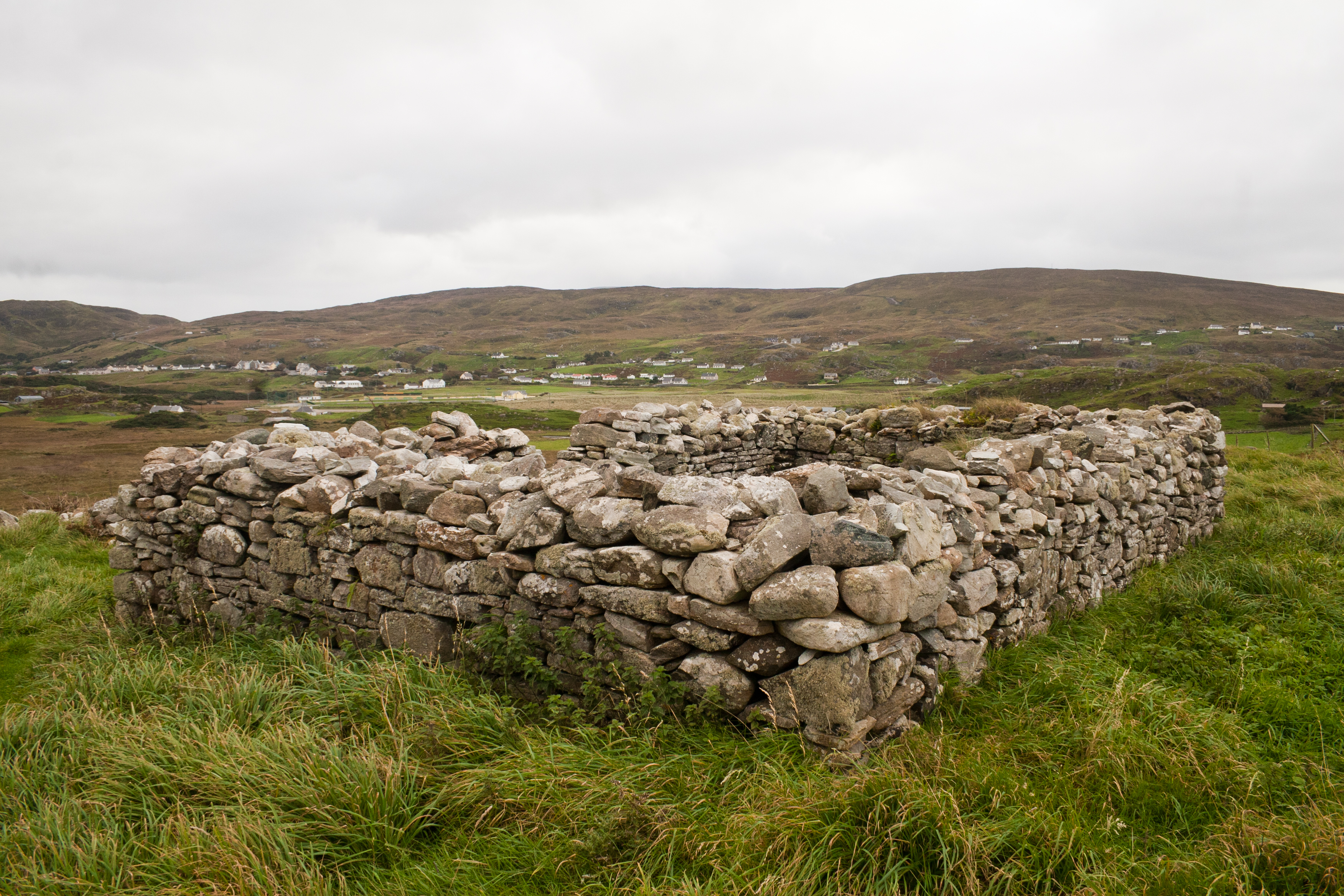 North view of Séipéal Colm Cille (Columba's Chapel), a rectangular building measuring 5.9 × 3.4 meters internally. (See Michael Herity: Gleanncholmcille: A guide to 5,000 years of history in stone.)